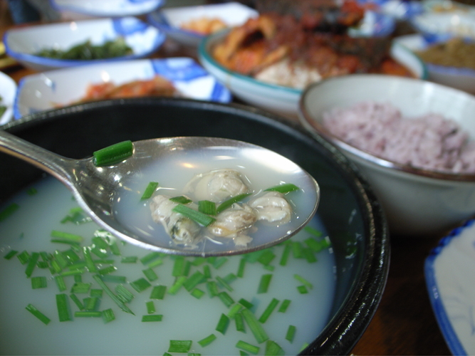 Jaecheonpguk (small clam soup) and godeungeo jorim (braised mackerel) in Korean cuisine.